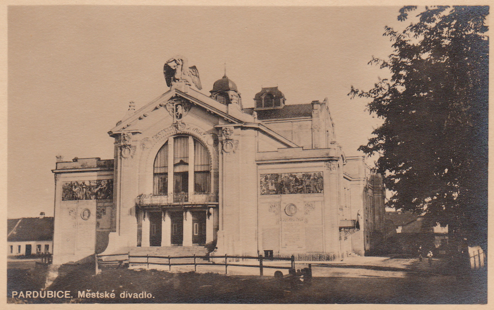 Pardubice. Municipal theatre. (Now Východočeské divadlo Pardubice)